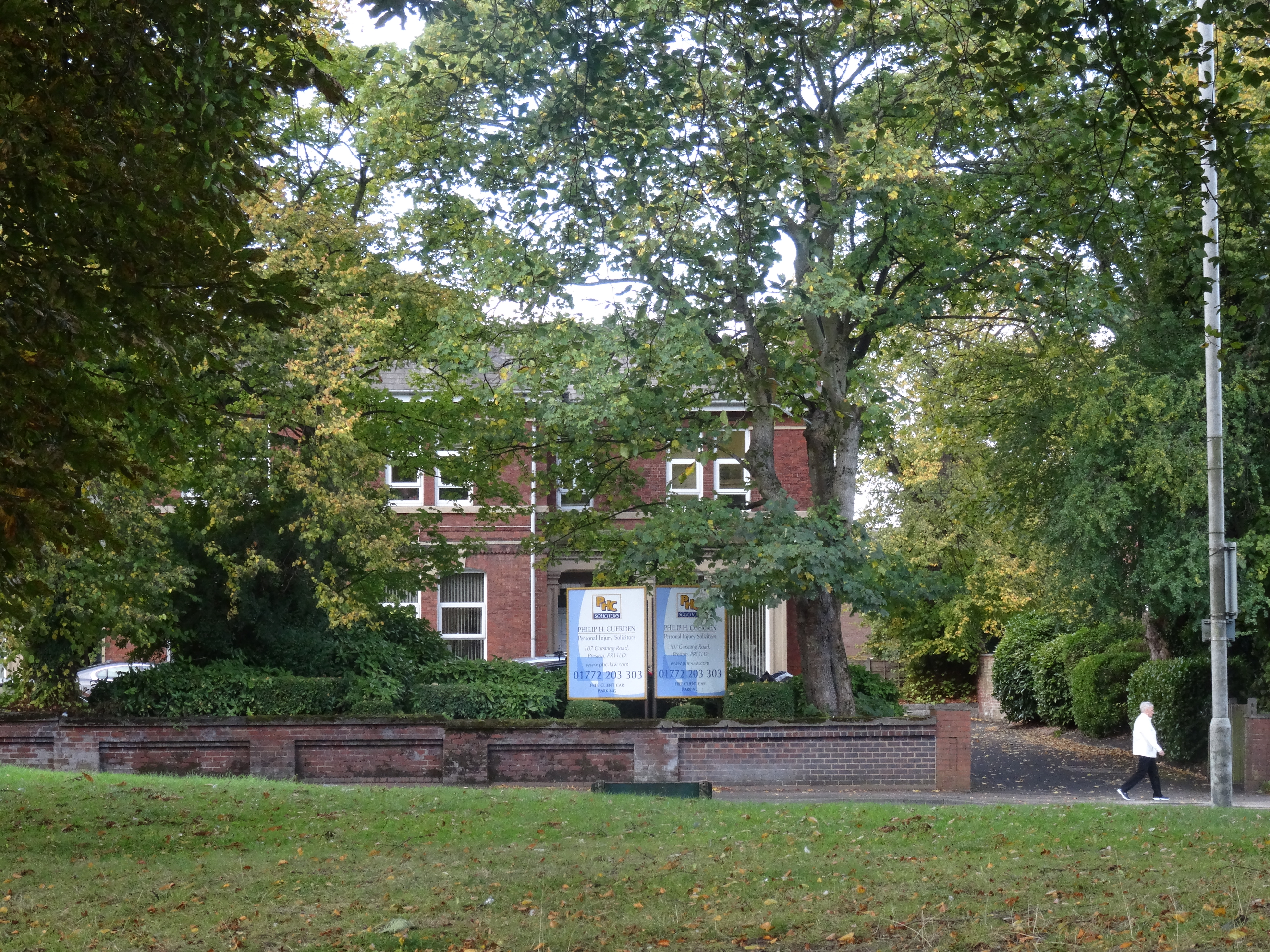 Photograph looking our East from Moor Park across to the commercial Garstang Road that includes several business properties.